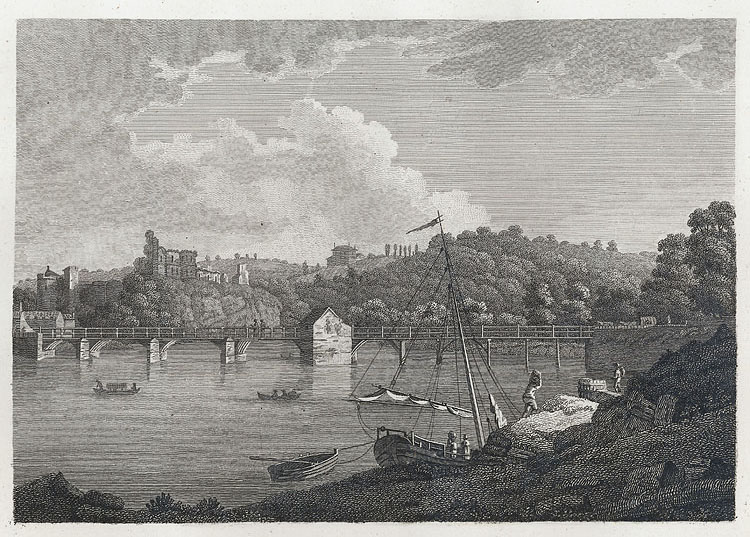 A sailing ship being unloaded on the River Severn with Chepstow Castle in the background.